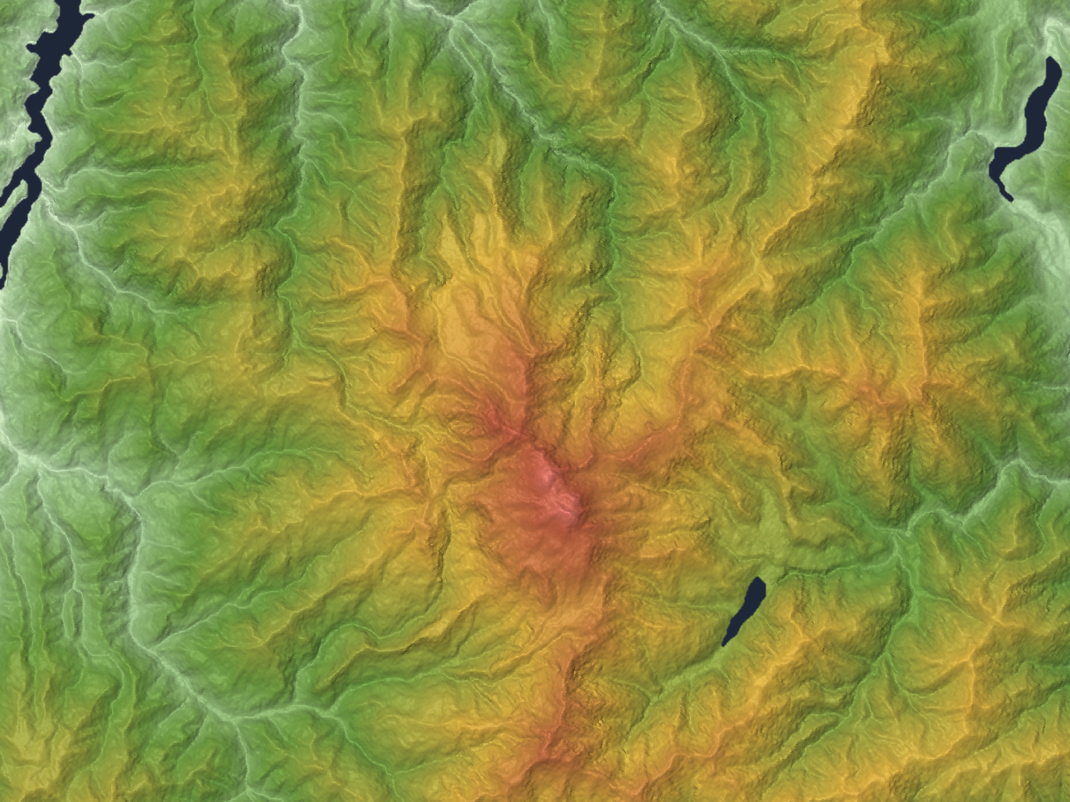 Hakusan (Mount Haku) is a volcano in the border between Ishikawa and Gifu prefectures, Honshu, Japan.